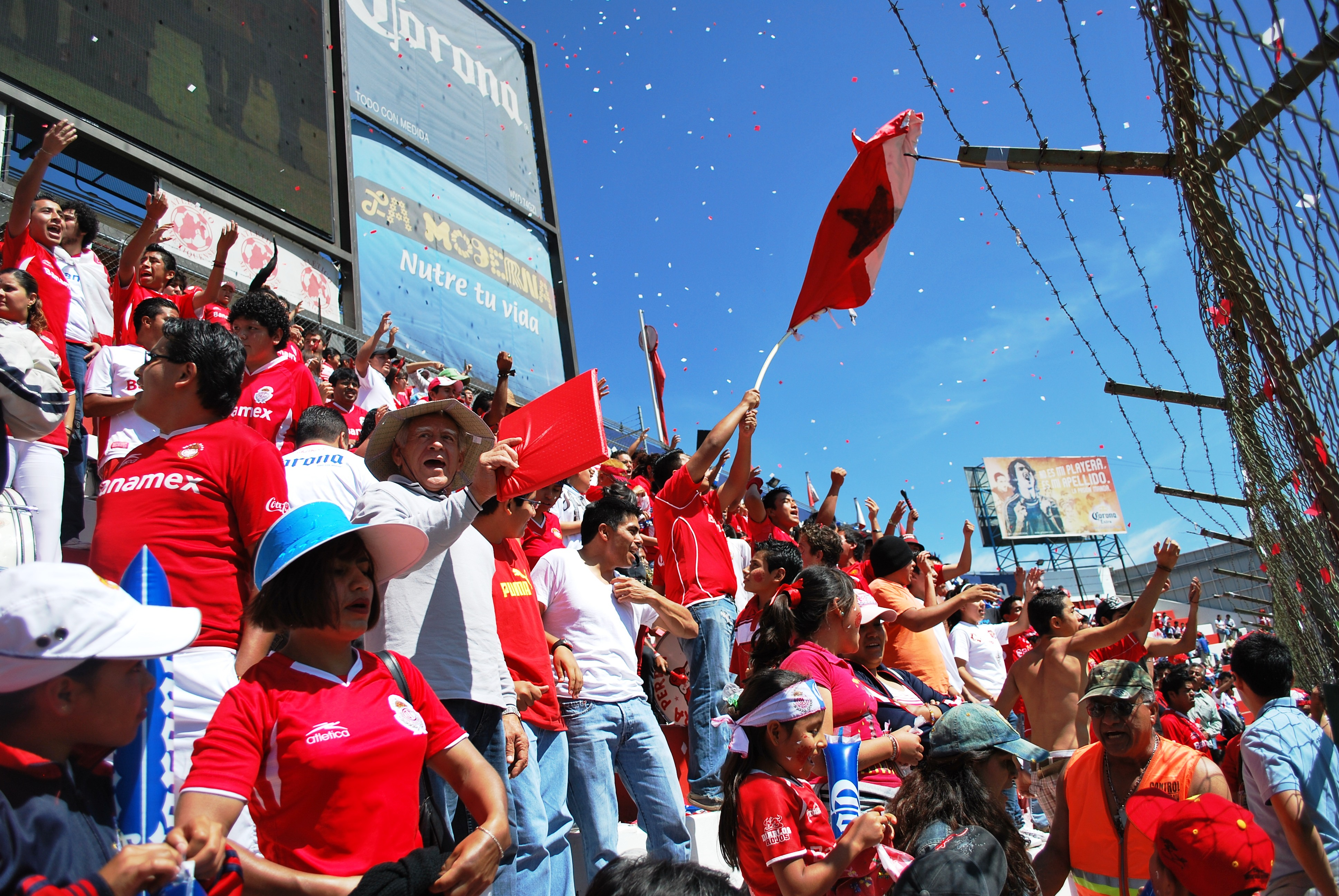 La Perra Brava at the start of the 26 July 2009 game between Toluca and Chivas in Nemesio Diez Stadium in Toluca, Mexico State